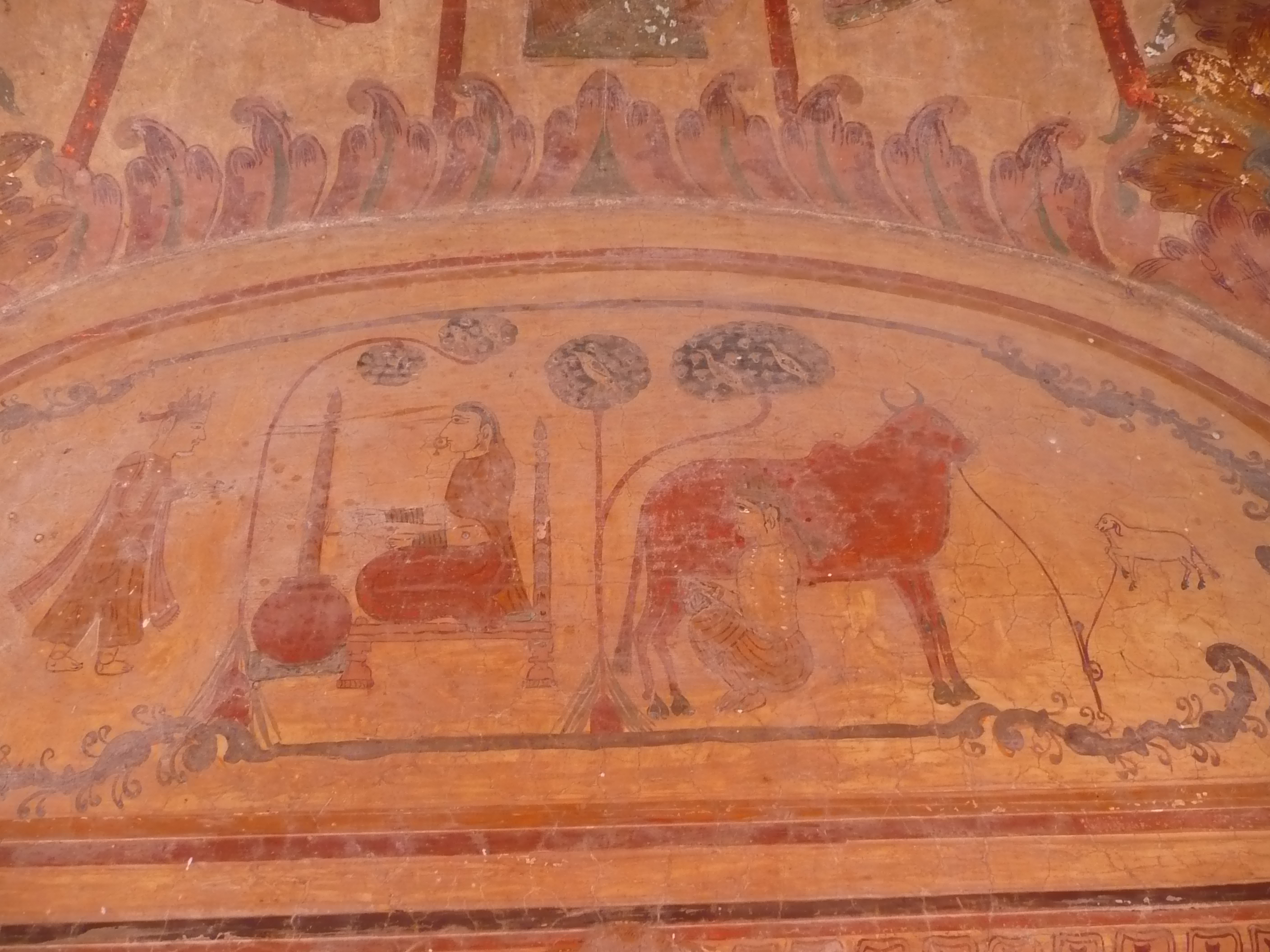 Ancient Wall Painting on Shiva Temple (Maha Dev) roof with Natural colours, Krishan standing in front of Cow as Mother making butter and other Gwala taking milk from Cow, this beautiful picture was taken by Munish Tandon at Payal, Ludhiana, Punjab, India